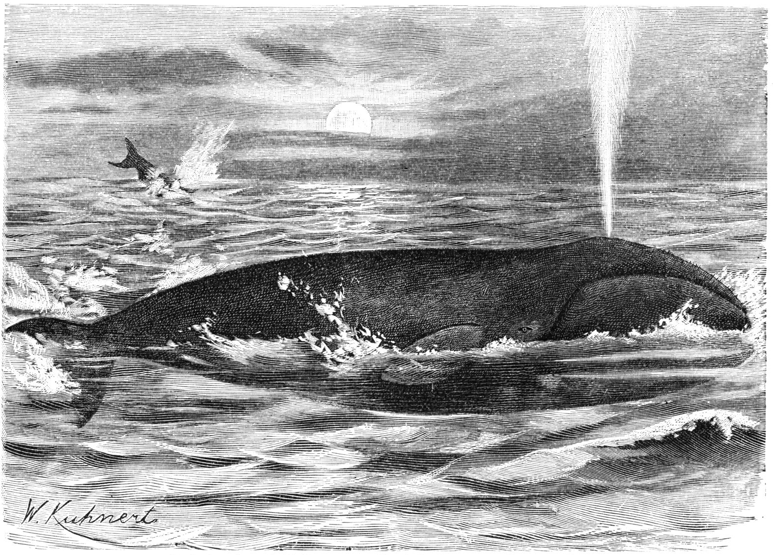 Bowhead, Balaena mysticetus L. 1/150 natural size.